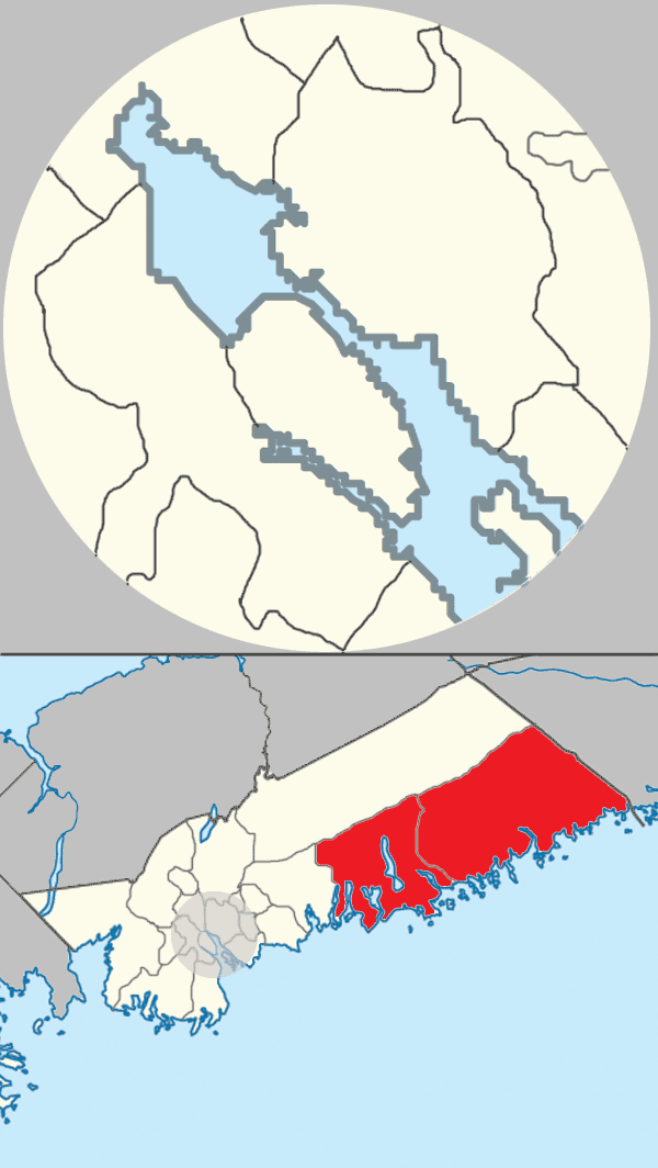 Updated map of east and west Eastern Shore planning areas in Halifax, Nova Scotia to standard colours, higher resolution, using